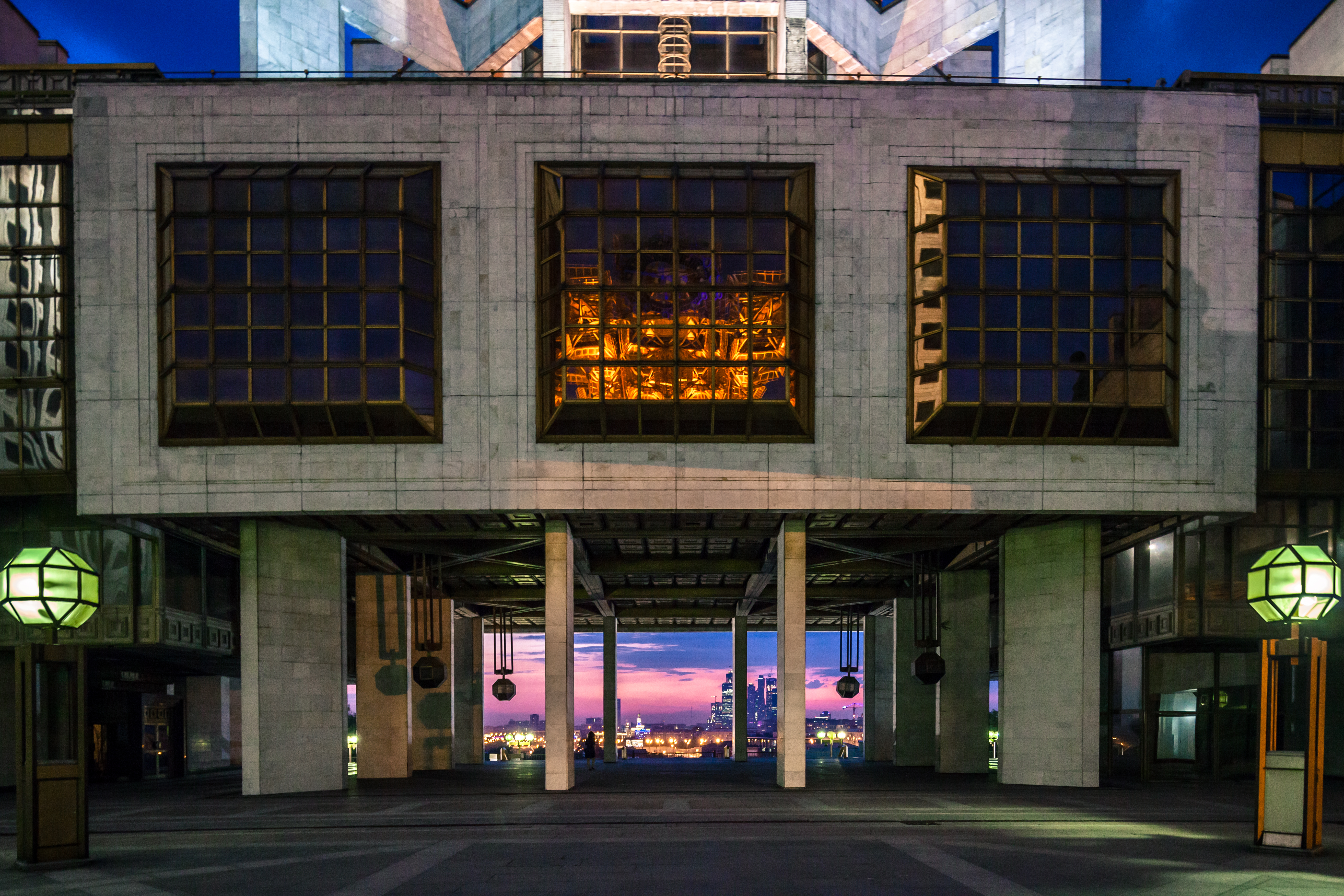 Night view of Moscow from the Academy of Sciences observation deck